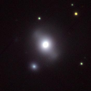 PanSTARRS image of NGC 3316.